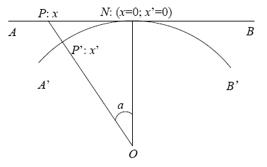 Cylindrical projection